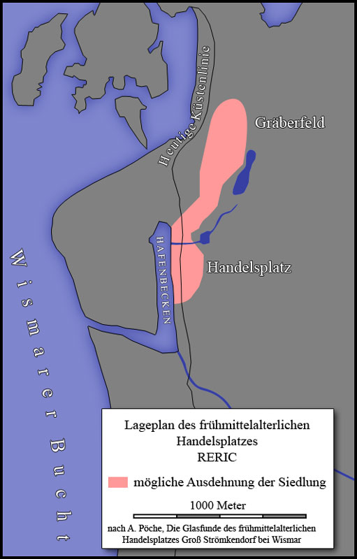 Lageplan des fruehmittelalterlichen Handelsplatzes Reric. Map of the early mediaeval emporium of Reric.